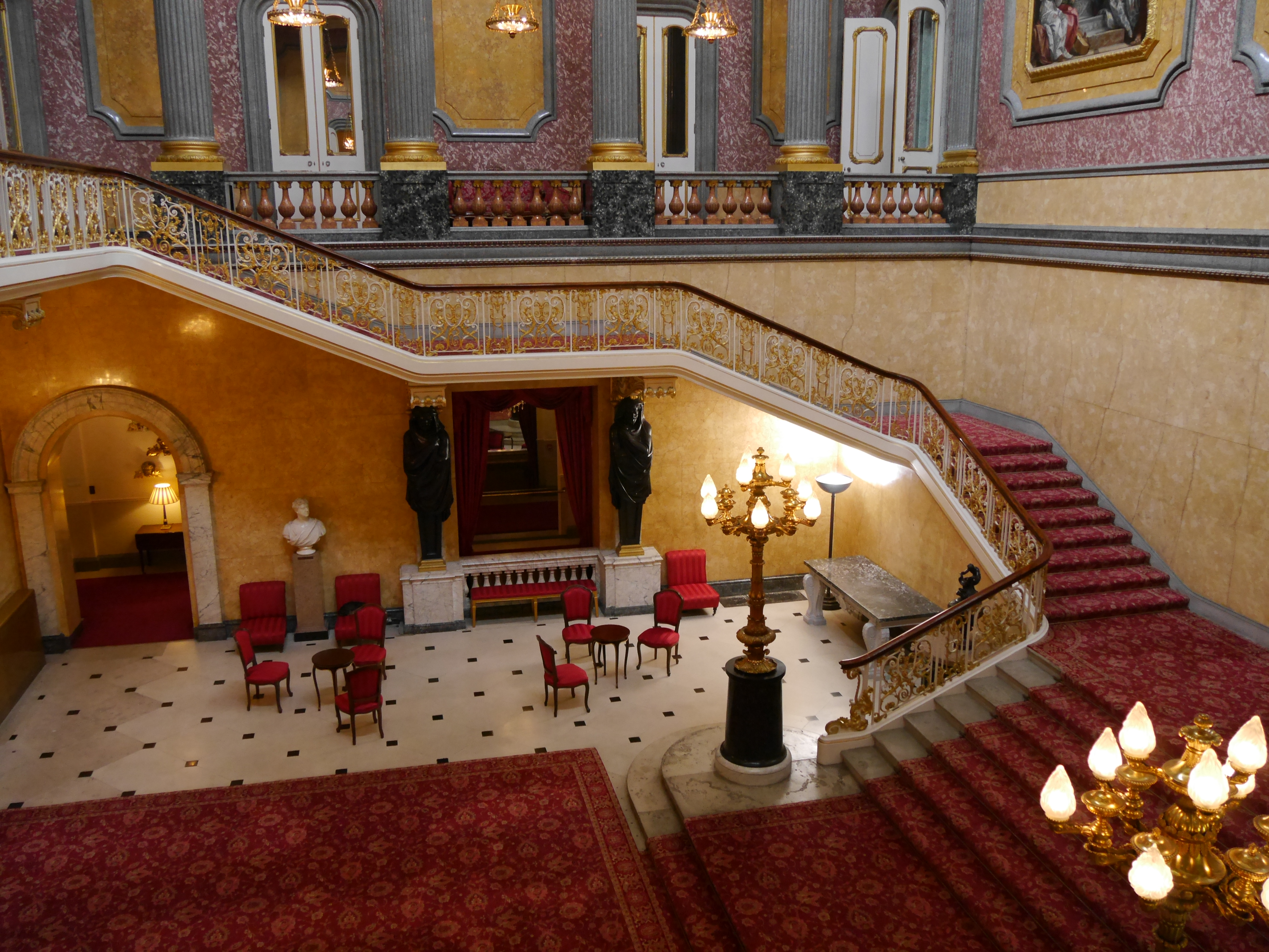 Lancaster House, September 2016